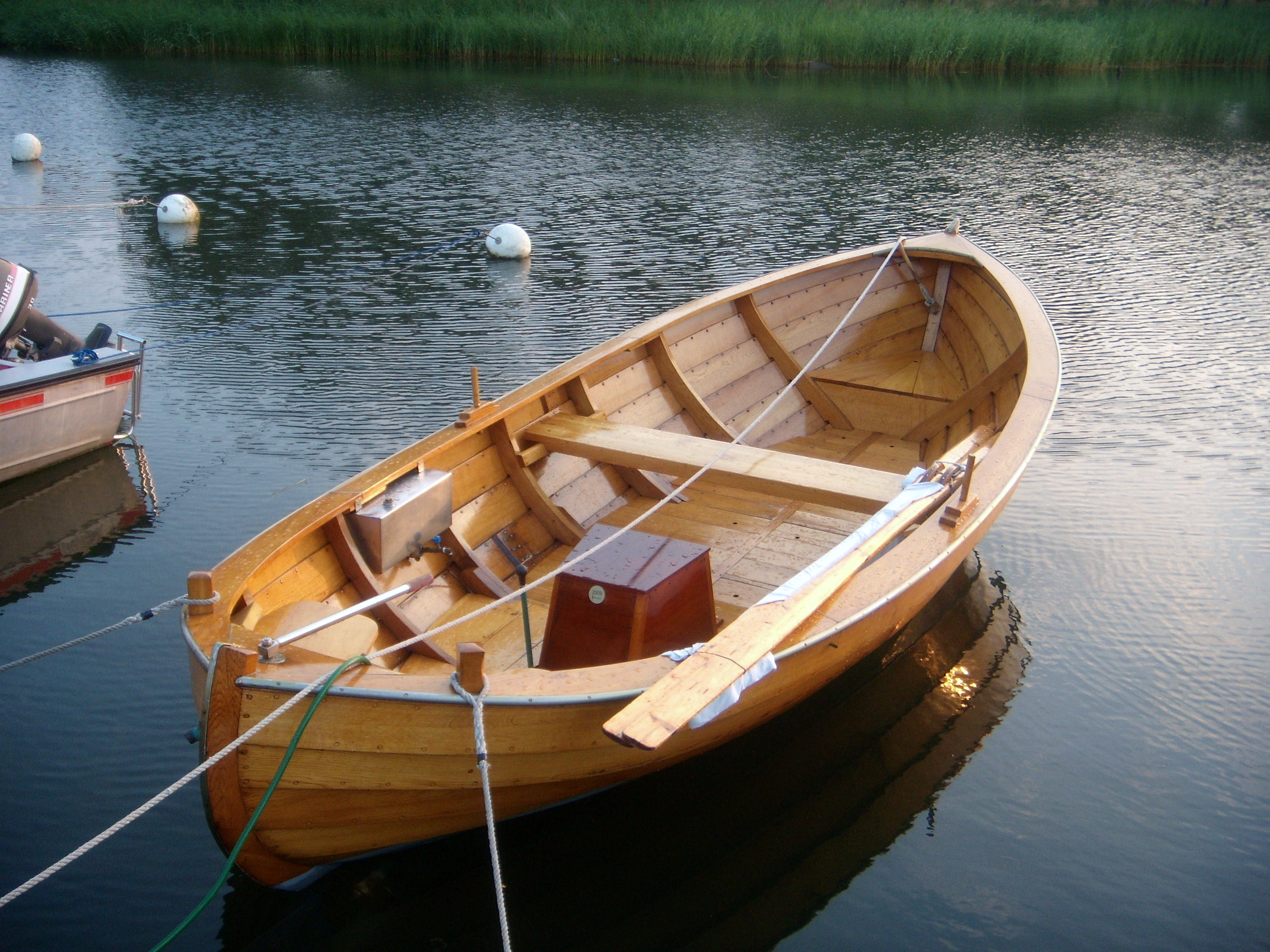 Wooden-boat with motor from Sweden